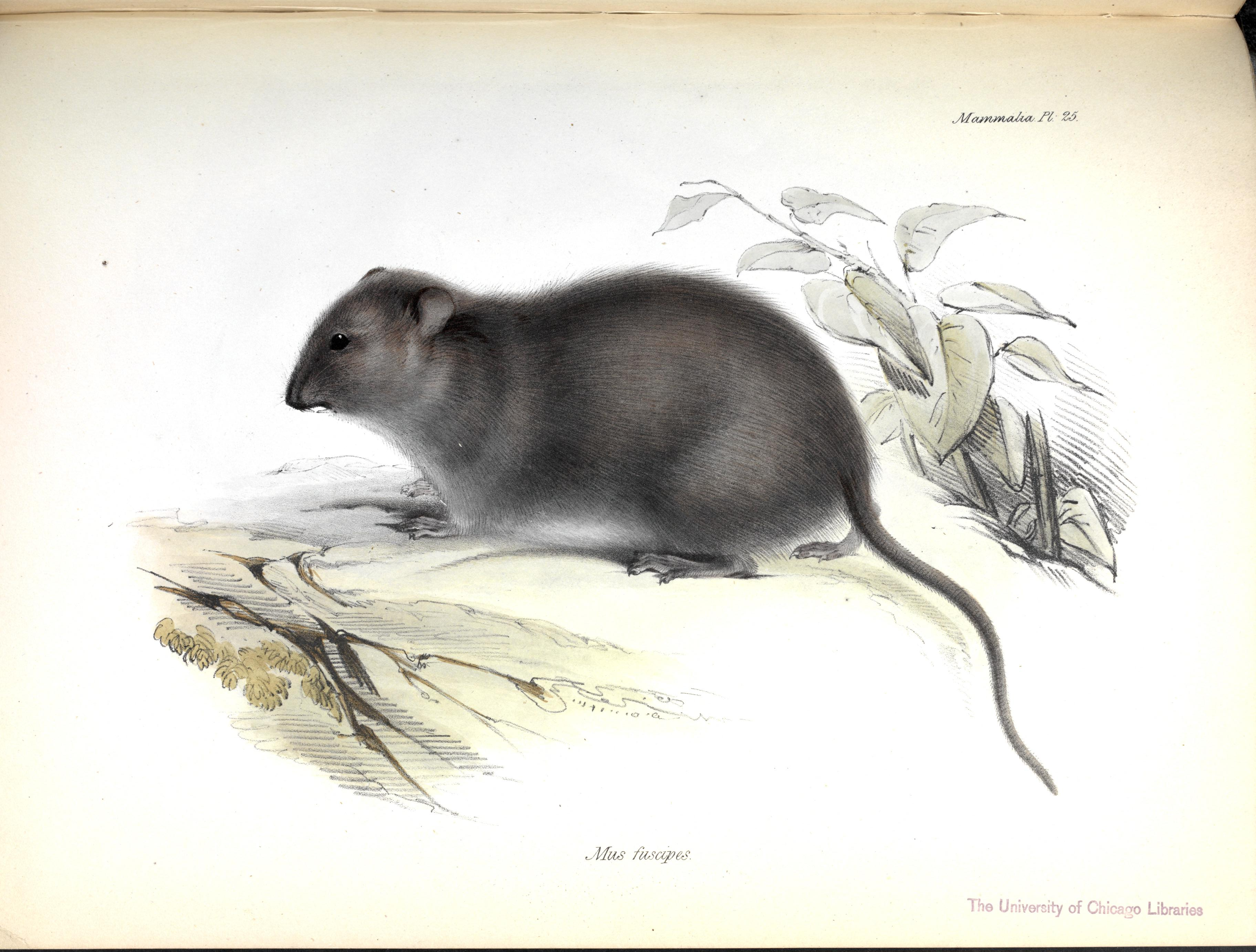 The zoology of the voyage of H.M.S. Beagle ... during the years 1832-1836.